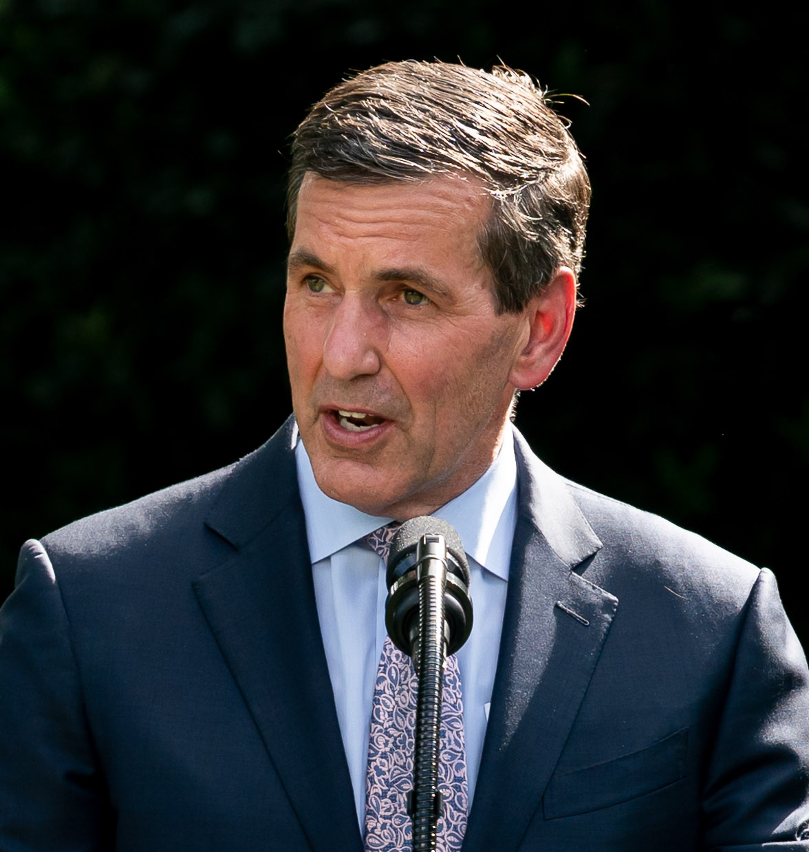 Bruce Broussard, president and CEO of Humana Inc., delivers remarks on protecting seniors with diabetes Tuesday, May 26, 2020, in the Rose Garden of the White House, where President Trump announced the results of the Part D Senior Savings Model that will provide Medicare patients with new choices of Part D plans that offer insulin at an affordable and predictable cost. (Official White House Photo by Andrea Hanks)